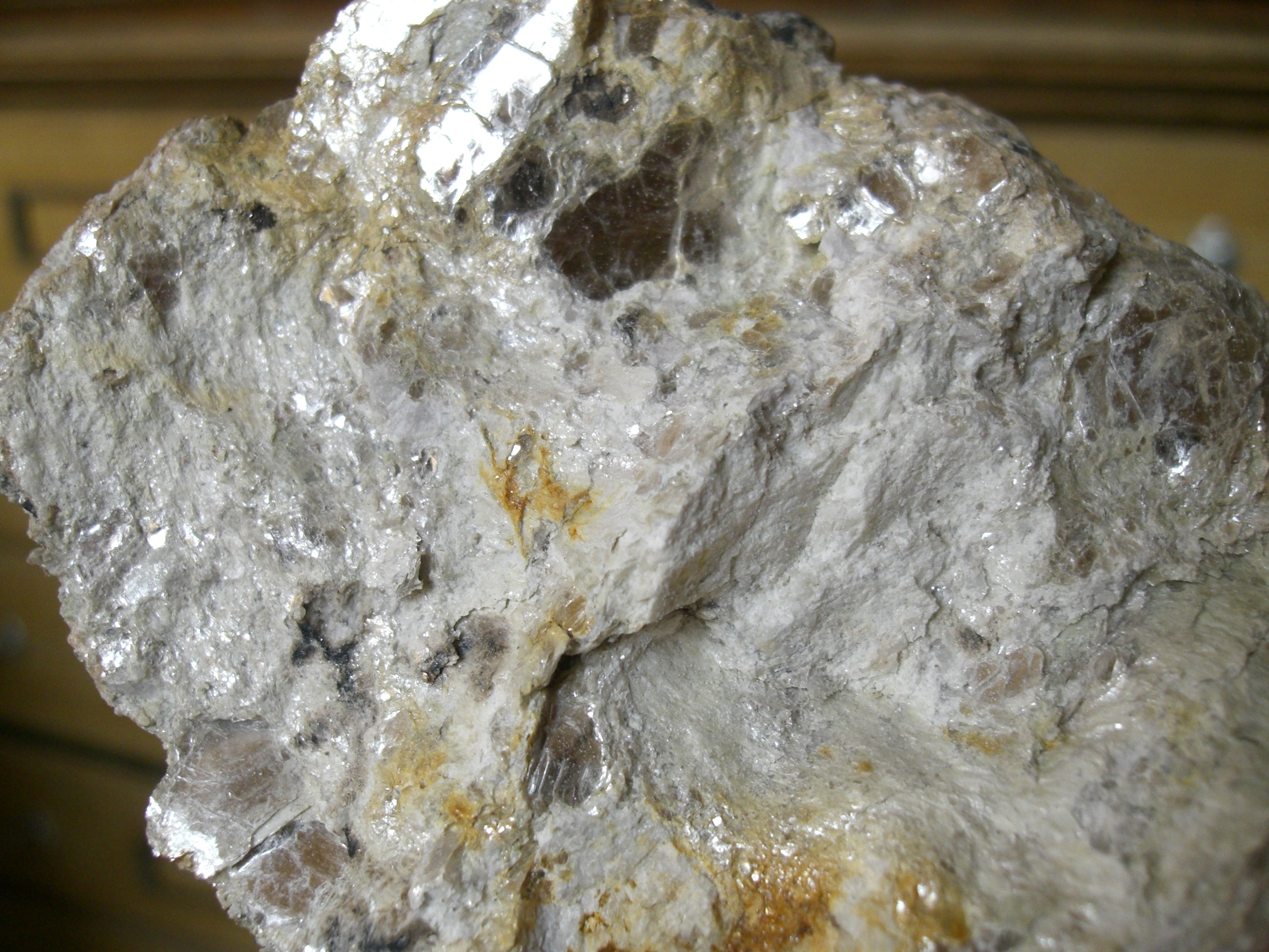 Pegmatite